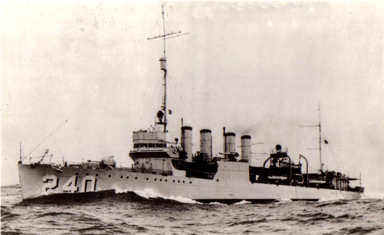 USS Sturtevant (DD-240) at sea, date and place unknown. US Navy photo. Official U.S. Navy Photograph taken from